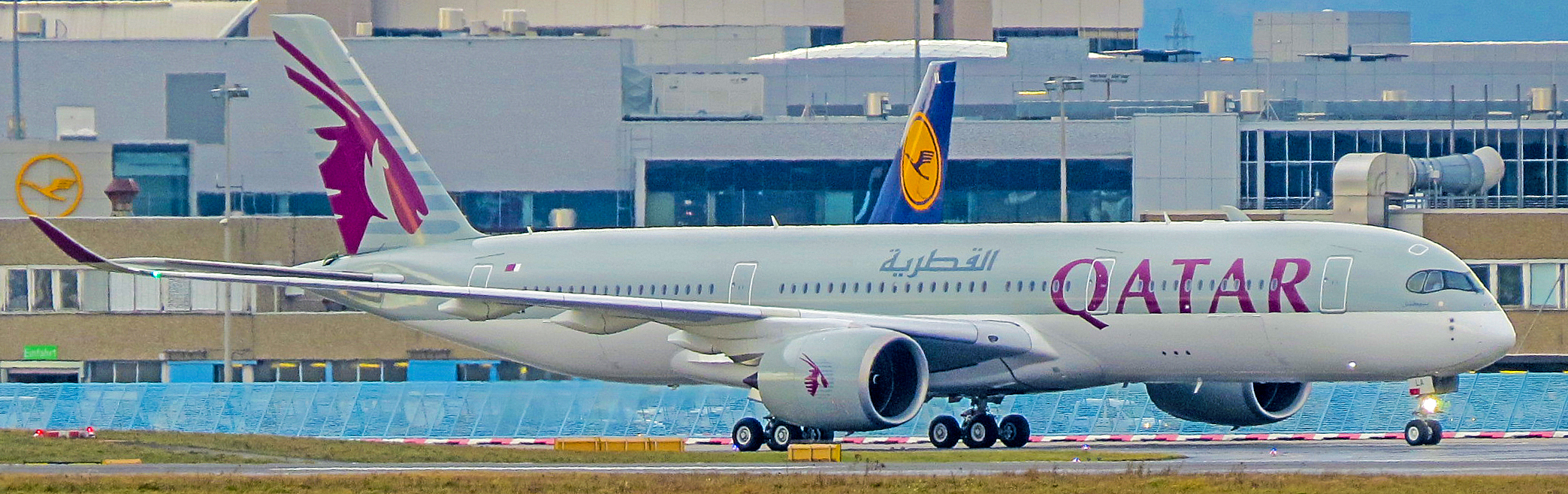 Qatar Airways Airbus A350-941 A7-ALA 15.Jan.2015 First commercial service Doha-Frankfurt